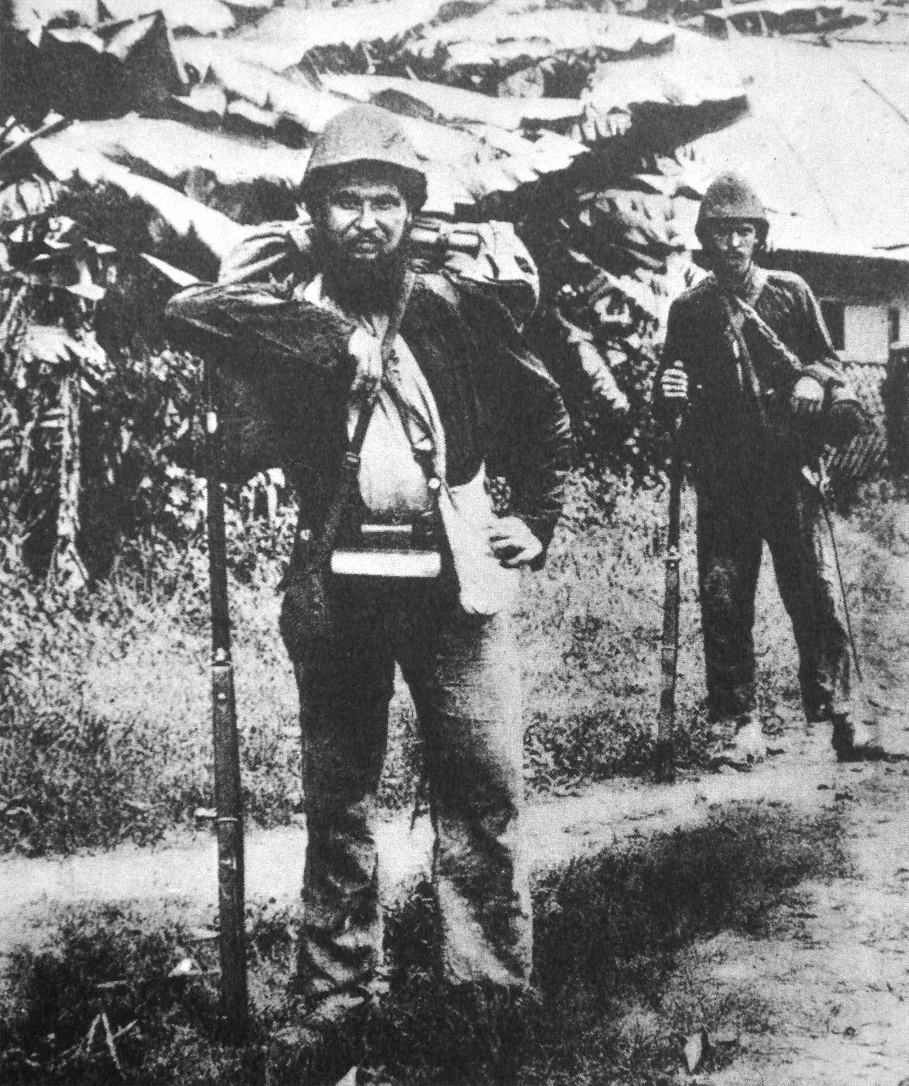 French "Marsouins" (Troupes de Marine) in Indo-China in 1888.